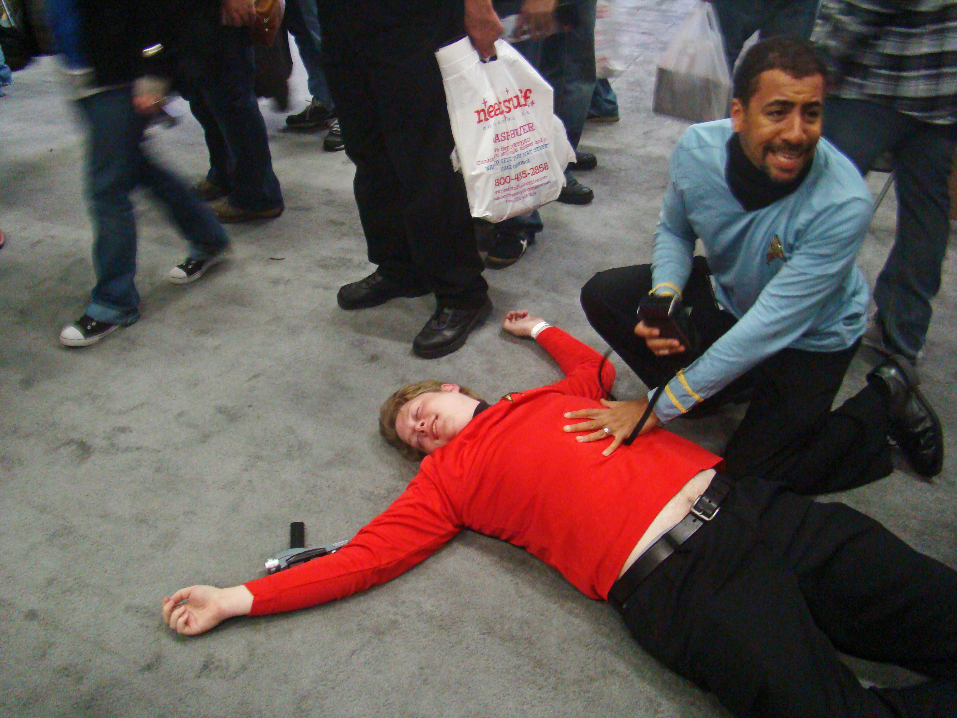 Two people from Star Trek-themed improv group Star Trekkin' hamming it up at Big Apple Con, Saturday October 17, 2009. New York City. A big thanks for everyone at the Con who let me take their picture. If you see yourself in my pictures let me know at: loser [at] istolethe [dot] tv.